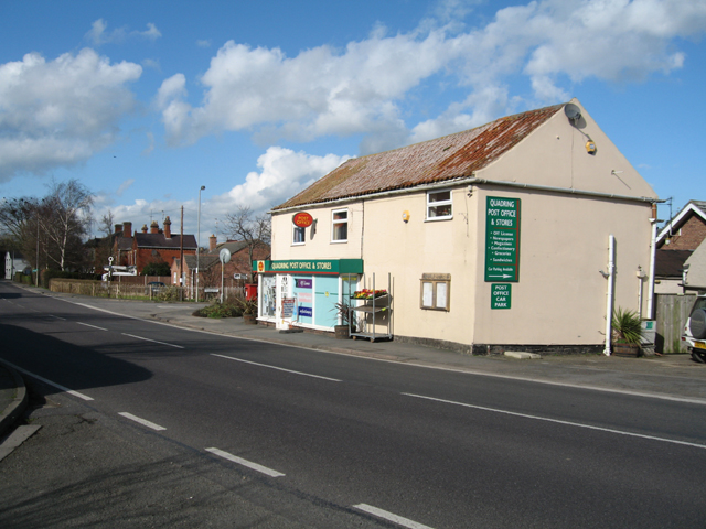 Post Office, Quadring, Lincs